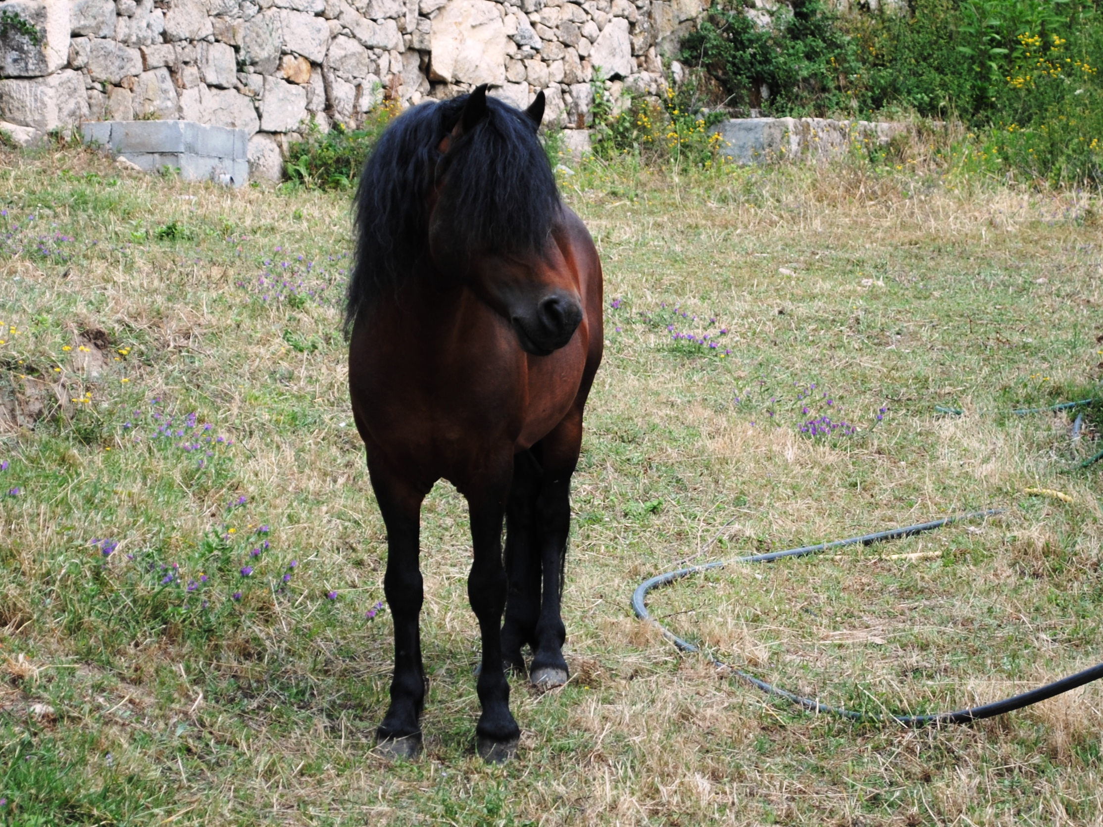 See title.